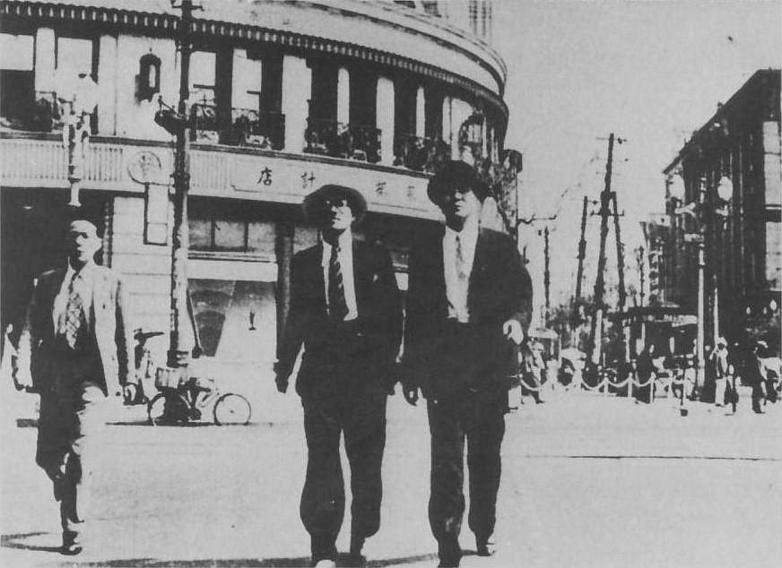 Entatsu Yokoyama (left) and Achako Hanabishi (right), "Manzai" Comedians from Japan.